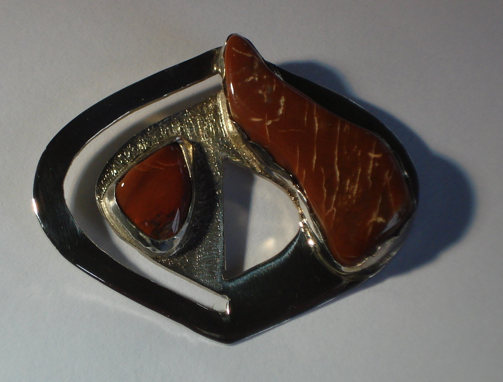 Silver and petrified wood pendant by Double Eye Design